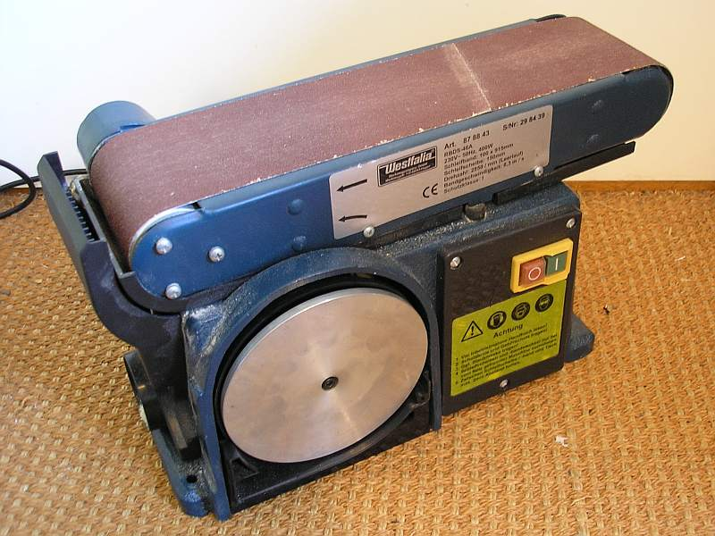 Stationary Belt sander - hobby quality (short belt). Westfalia RBDS-46A, 230V, 400W, belt size 100x915mm, belt speed 8.3m/s Keywords: Grinding, lapping, cutting, finishing